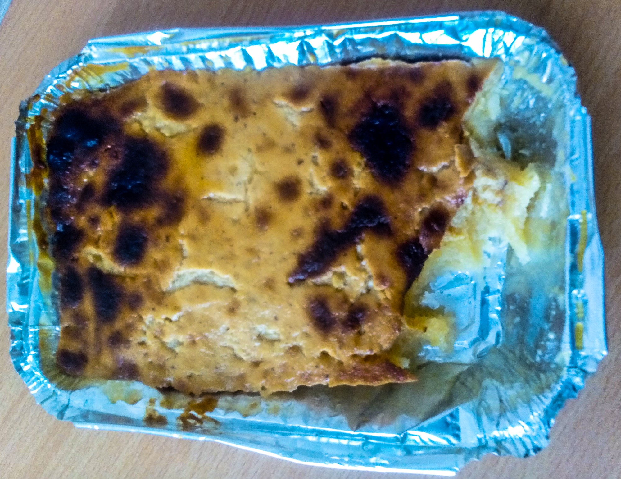 Cassava Cake Filipino Dessert